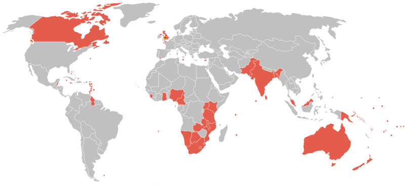 Highlighted in red are the countries expected to participate in the 2014 Commonwealth Games, derived from 2010 games map. Red = Countries participating Highlighted square is host city (Glasgow)